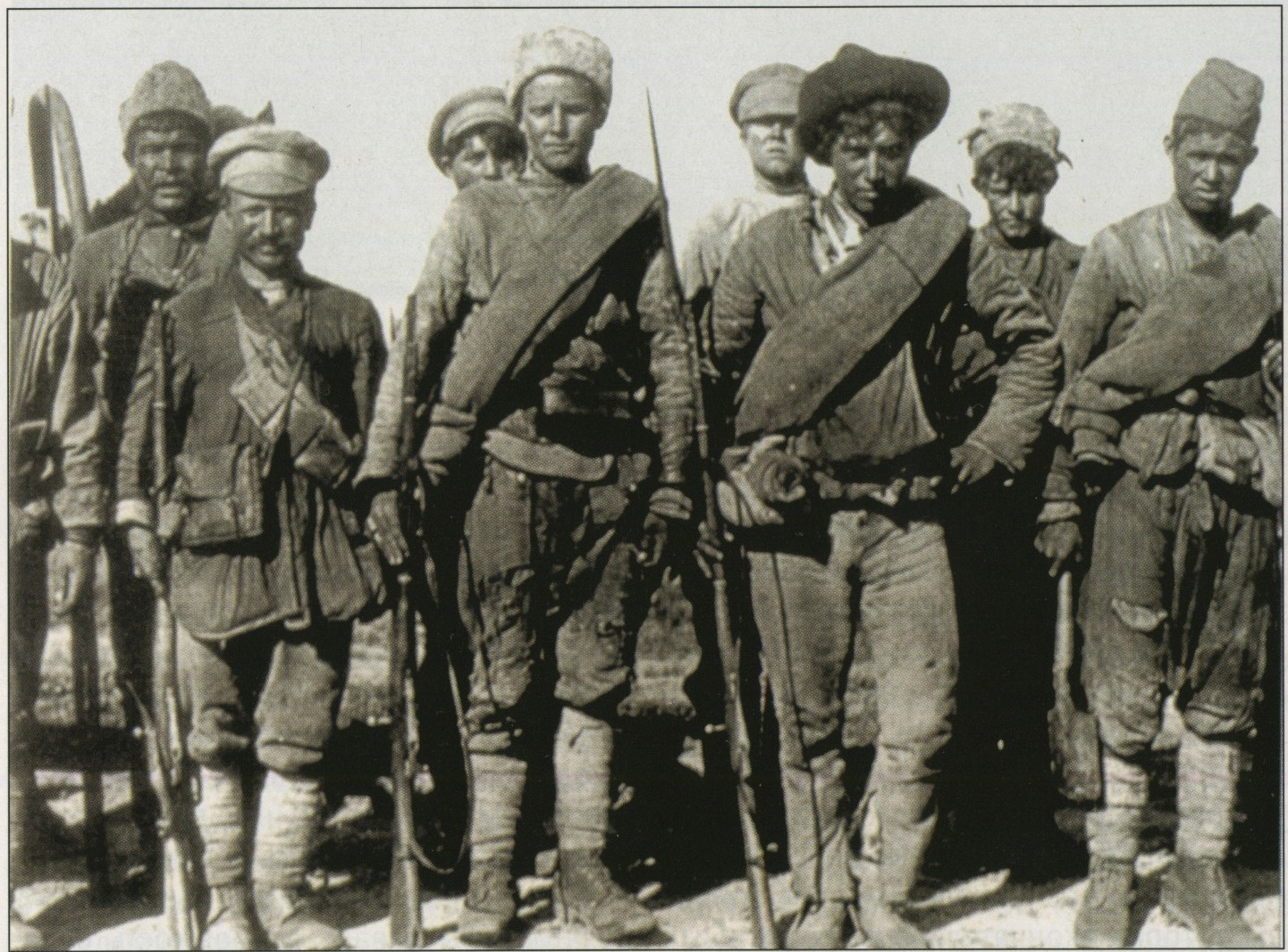 Kolchak armies (uniforms)